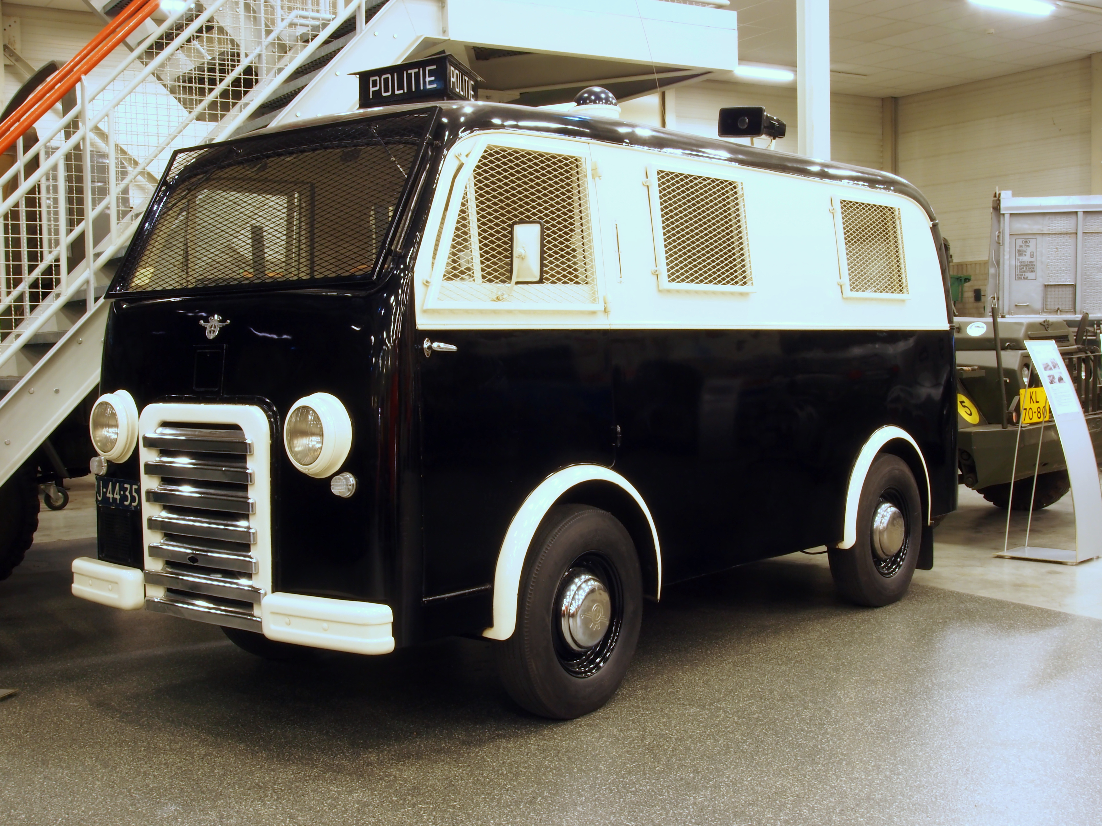 Photographed at the DAF museum.